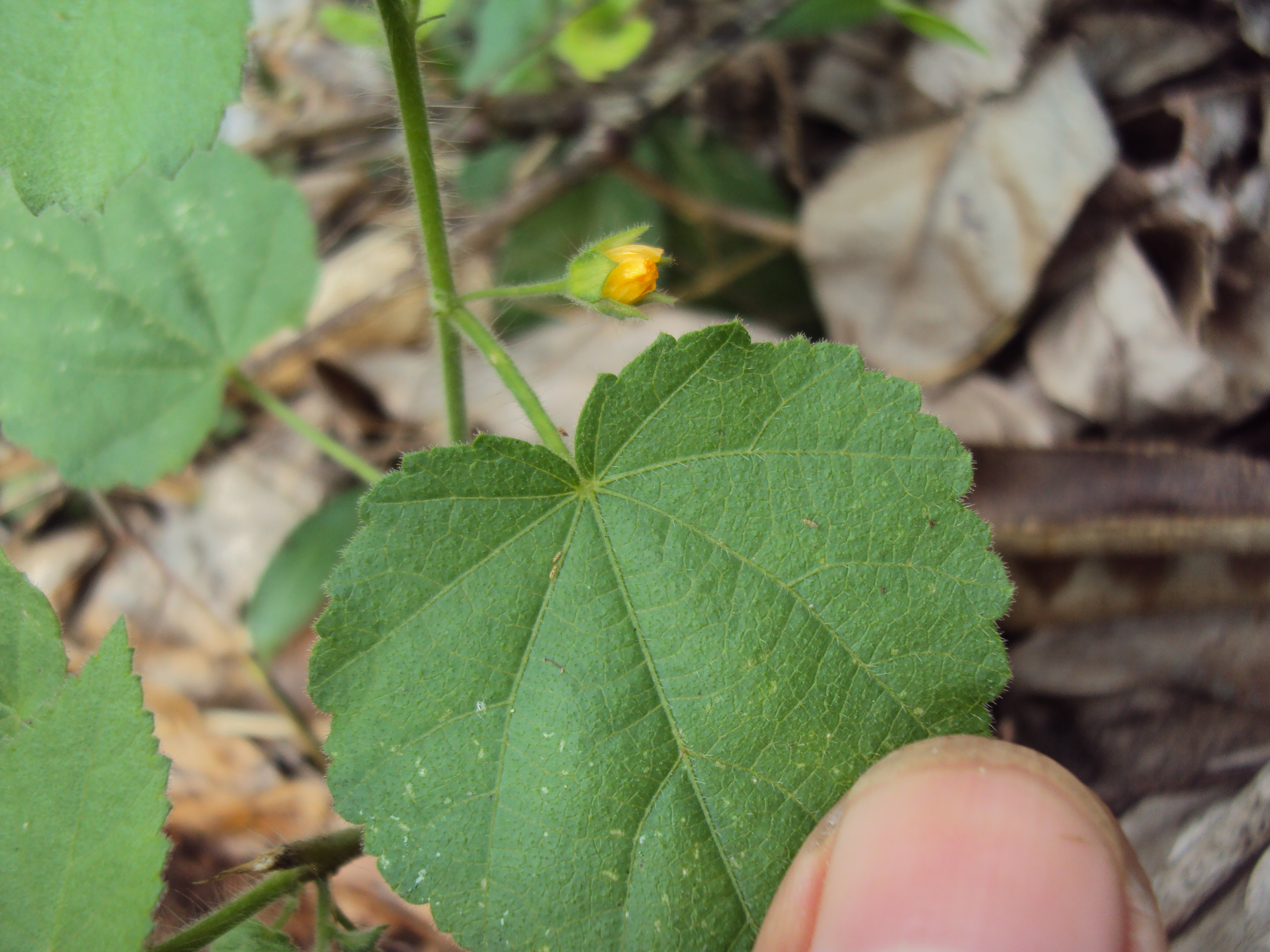 Sida cordifolia